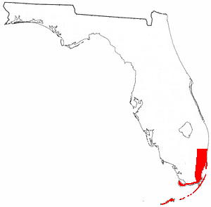 Modified by Donald Albury User:Dalbury from :Image:FLMap-Jaega.PNG. GFDL. Approximate territory of the Tequesta in the 16th Century